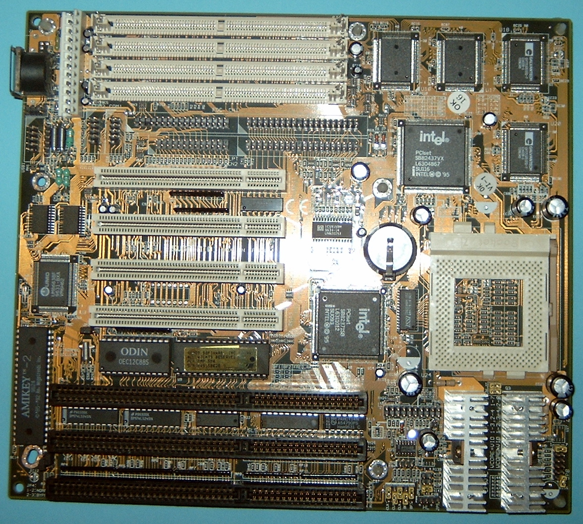 socket-7 AT mainboard, year of manufacture 1996